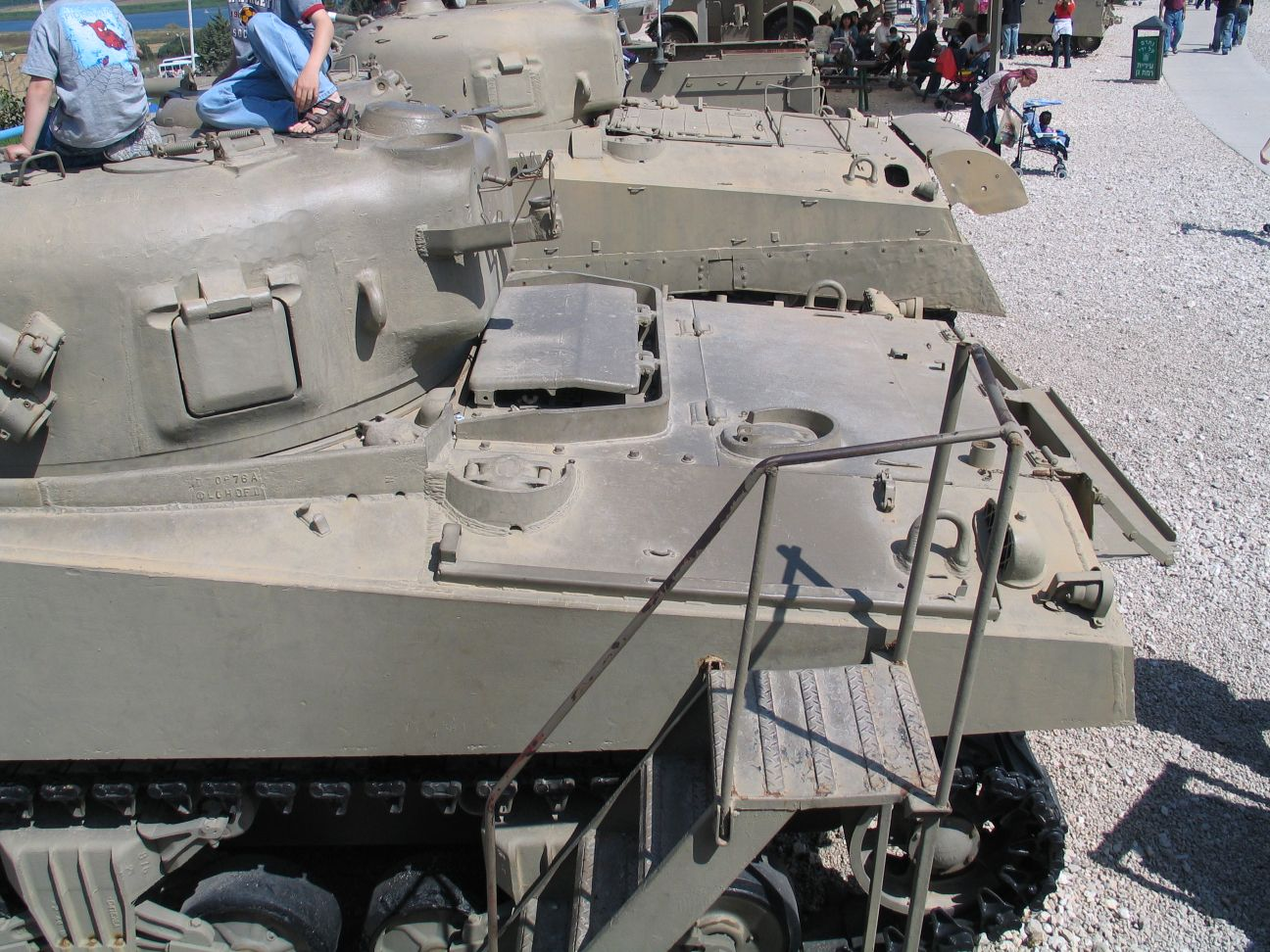 M4(105) Sherman Medium Tank in Yad la-Shiryon Museum, Israel. Labeled as M4A3, but has Continental engine (like M4/M4A1) (note: the M4A3 is the unit further from the camera, with the grab-bars on the engine deck)